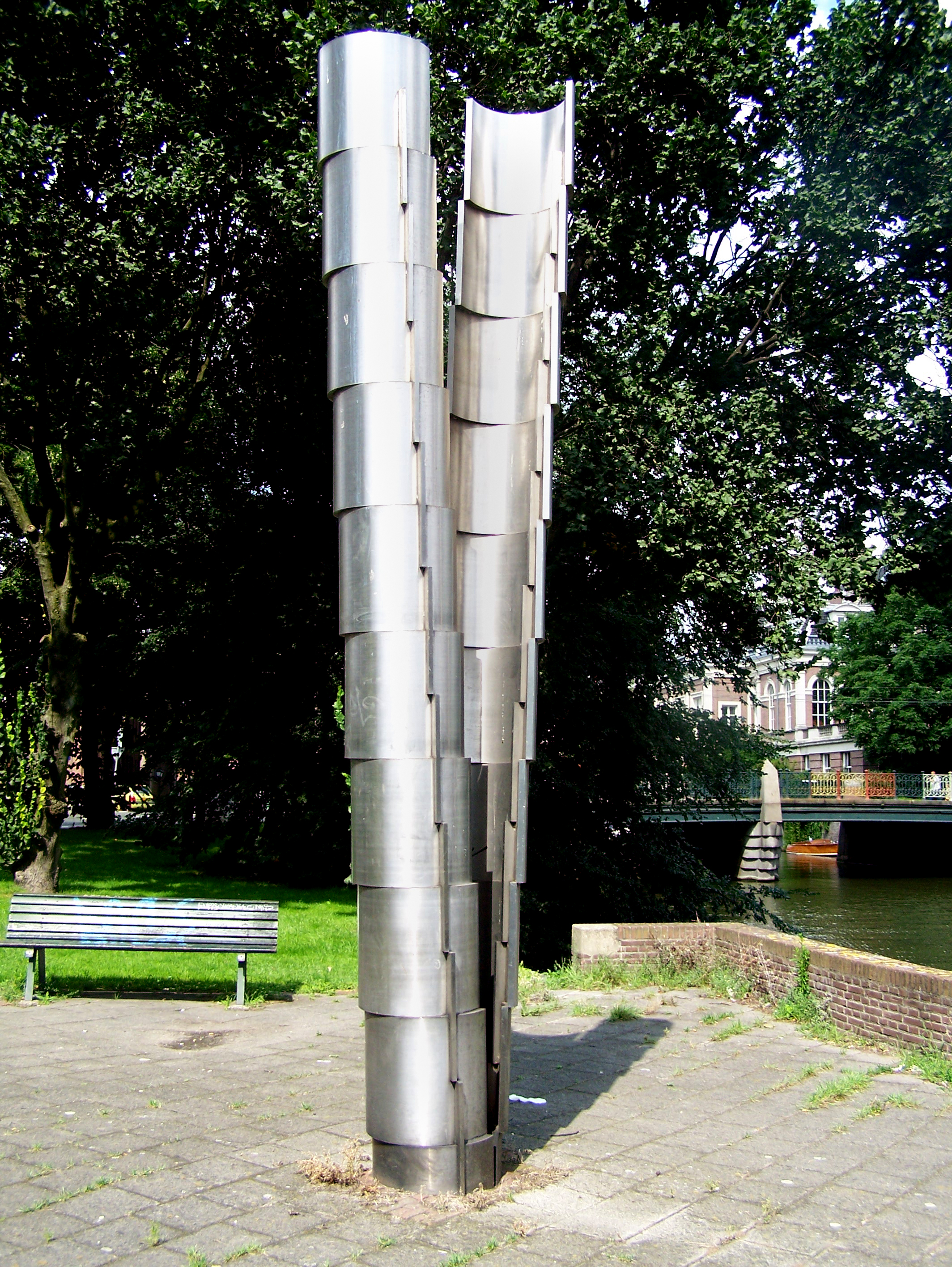 Kolommen by André Volten in 1968-1970. Placed at the Roetersstraat.